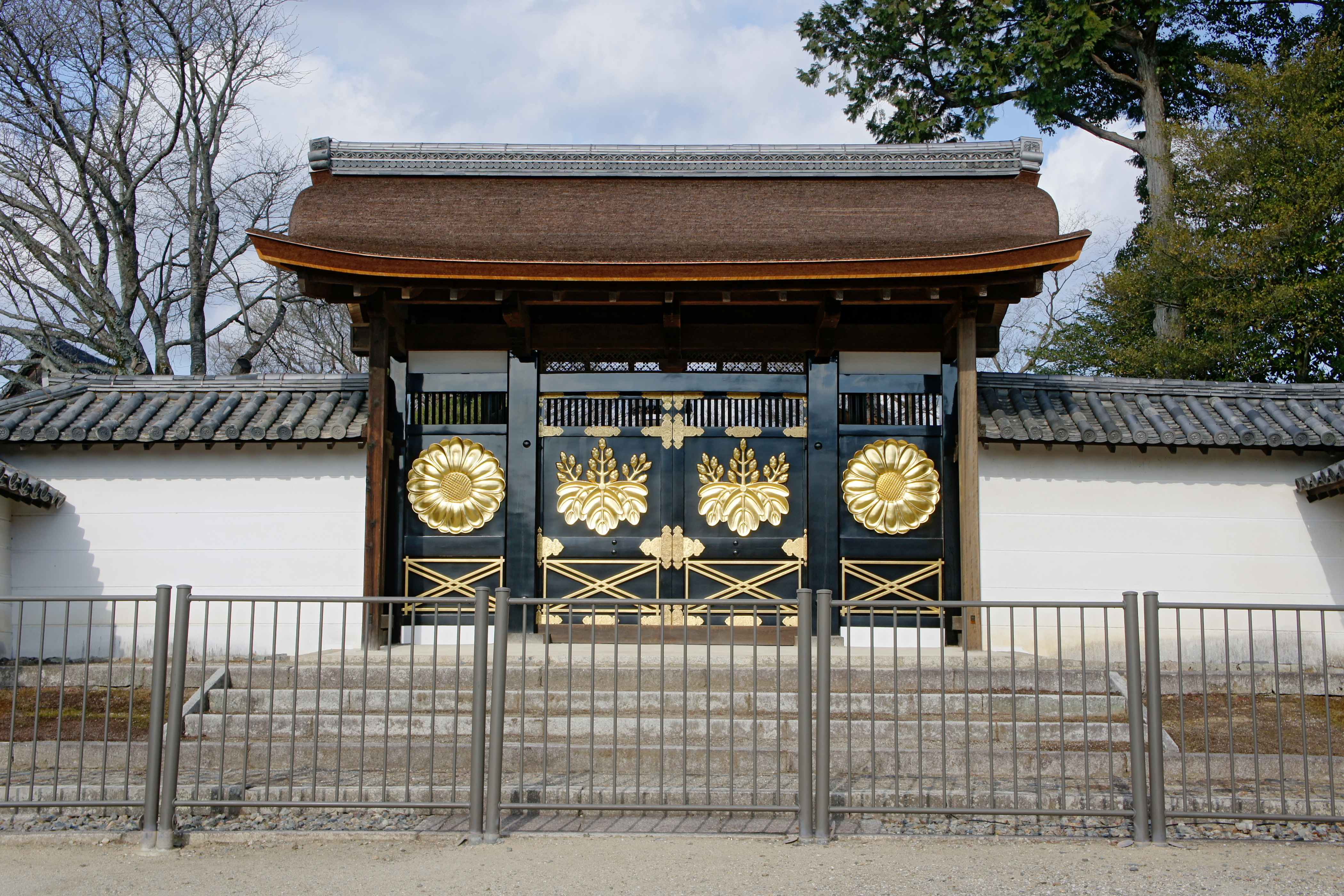 Sanbō-in's Karamon is Japan's National Treasure in Fushimi-ku, Kyoto, Kyoto Prefecture, Japan. Daigo-ji including Sanbō-in was registered as part of the UNESCO World Heritage Site "Historic monuments of ancient Kyoto".